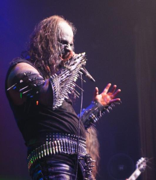 Pest, vocalista de Gorgoroth.